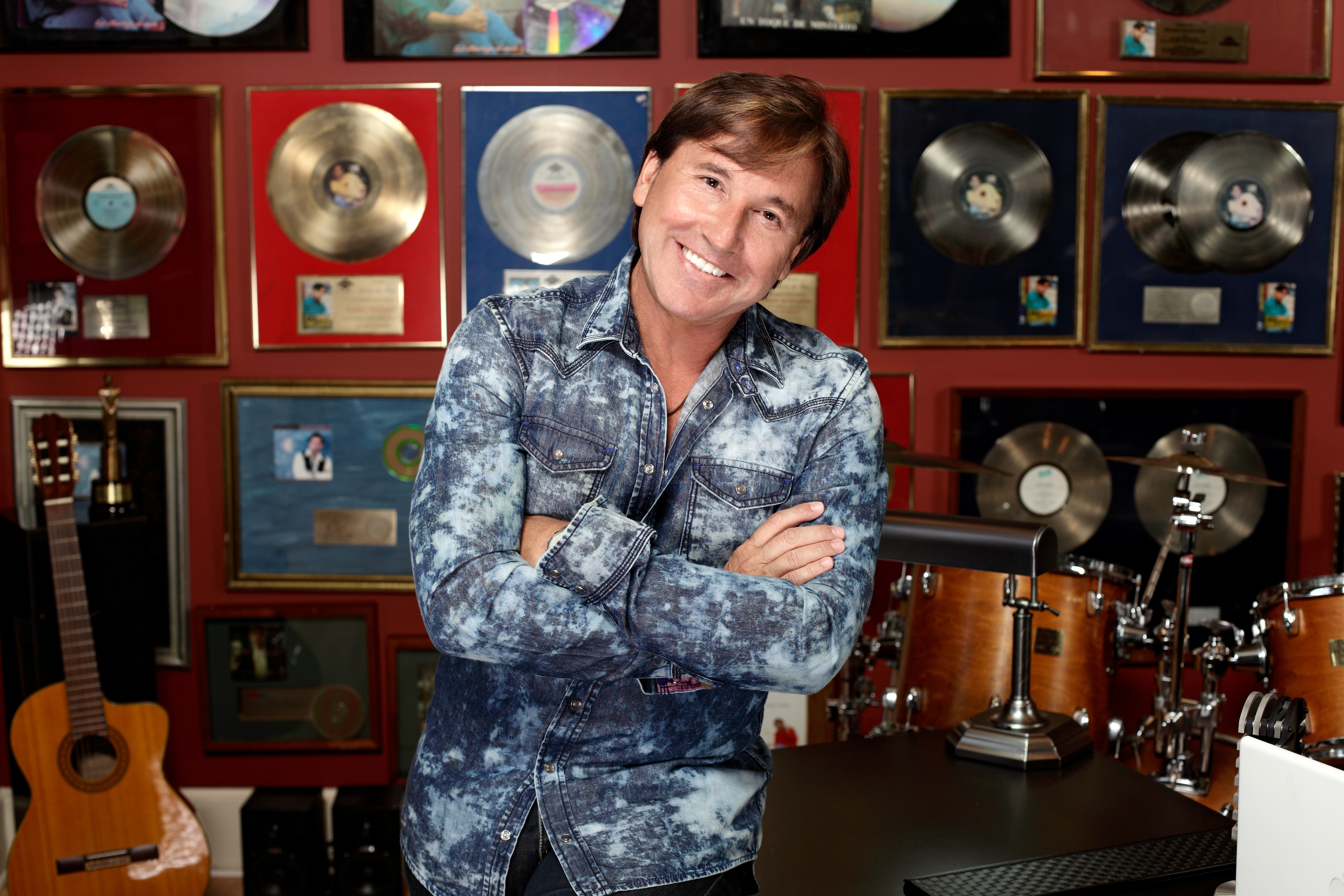 Ricardo Montaner in Miami, Florida, United States Of America, photographed by Kike San Martín.